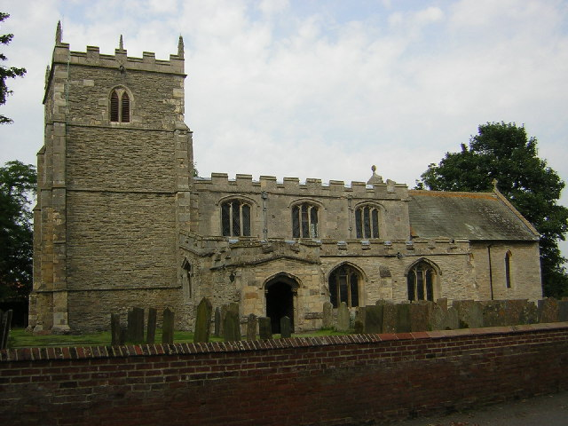 St.Helena's church, South Scarle, Notts. A nice church with a splendid Norman arcade and a curious "vamping horn" discovered when the north aisle was converted into the parish room.